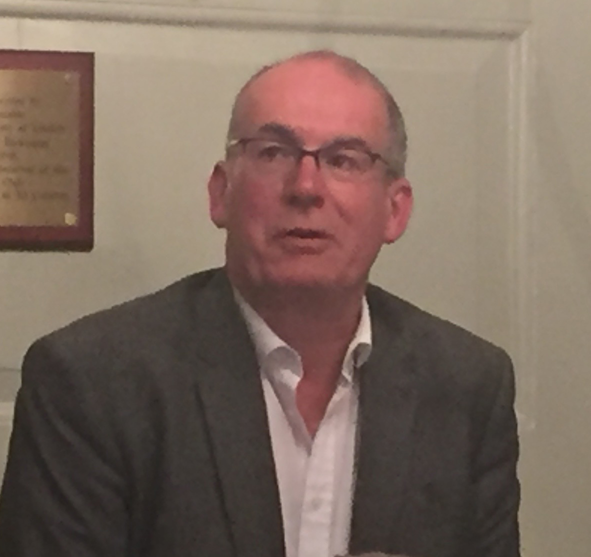 David Quantick, British writer and comedian